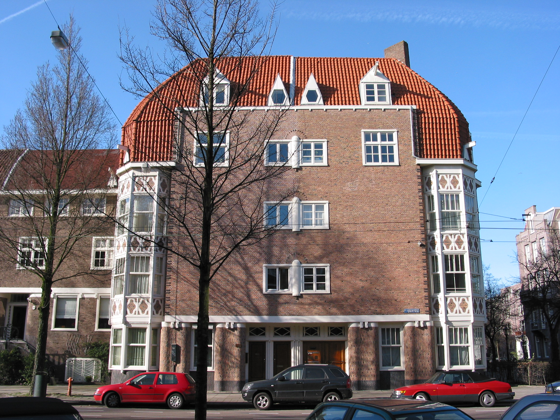 De Lairessestraat 142-144 (from right to left), Amsterdam.